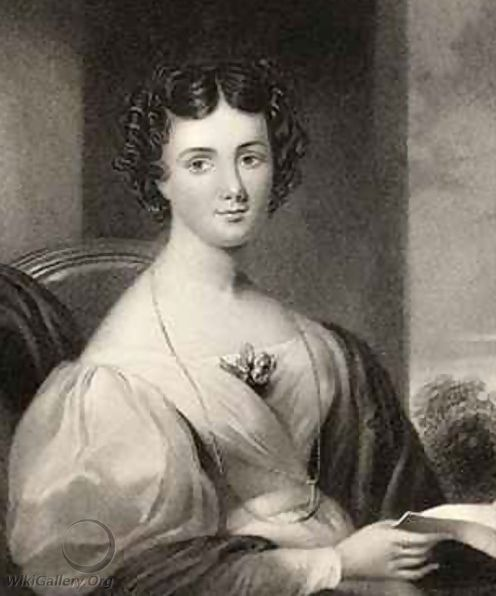 Maria Jane Jewsbury by G Freeman published in The National Portrait Gallery Of Illustrious And Eminent Personages encyclopedia, United Kingdom, 1833.